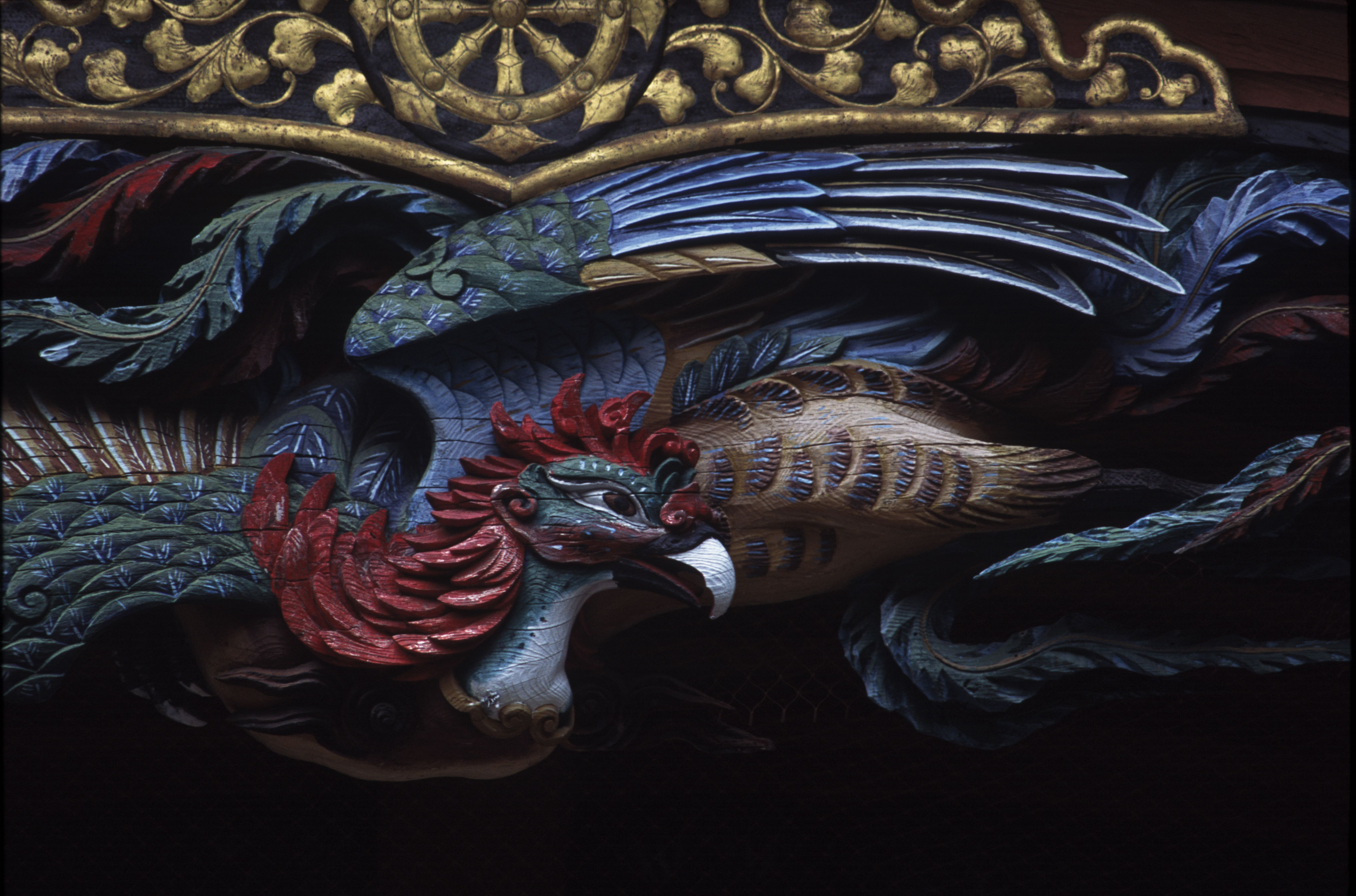 The front decoration of the Mieido temple in Taisekiji, National asset that is currently under restoration.